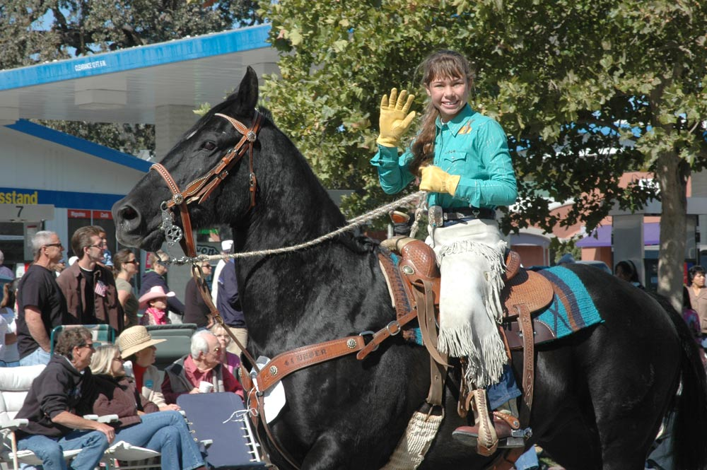 True Blue Cowgirl